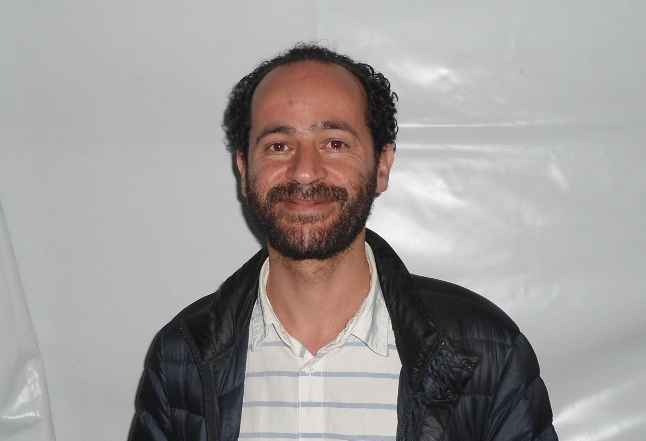 Ramzi Aburedwan 2015